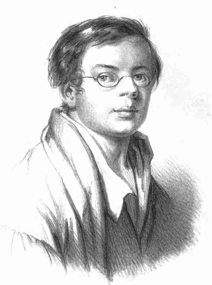 Carl Wahlbom. Self-portrait.